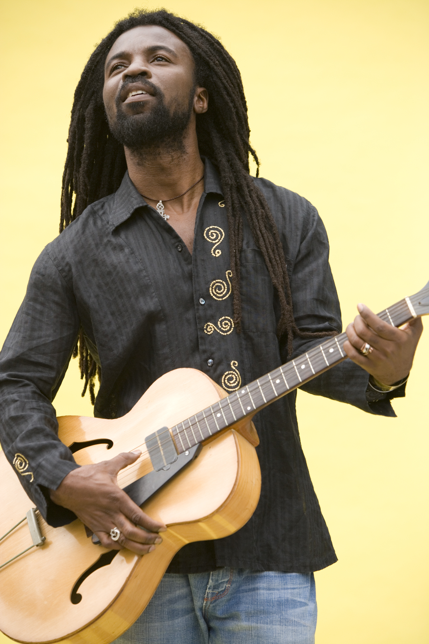 Rocky Dawuni; Ghanaian Reggae artiste